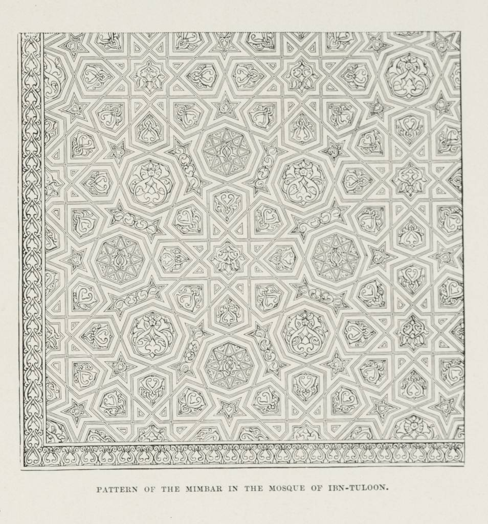 Pattern found on the mimbar of the mosque of Ibn-Tuloon.